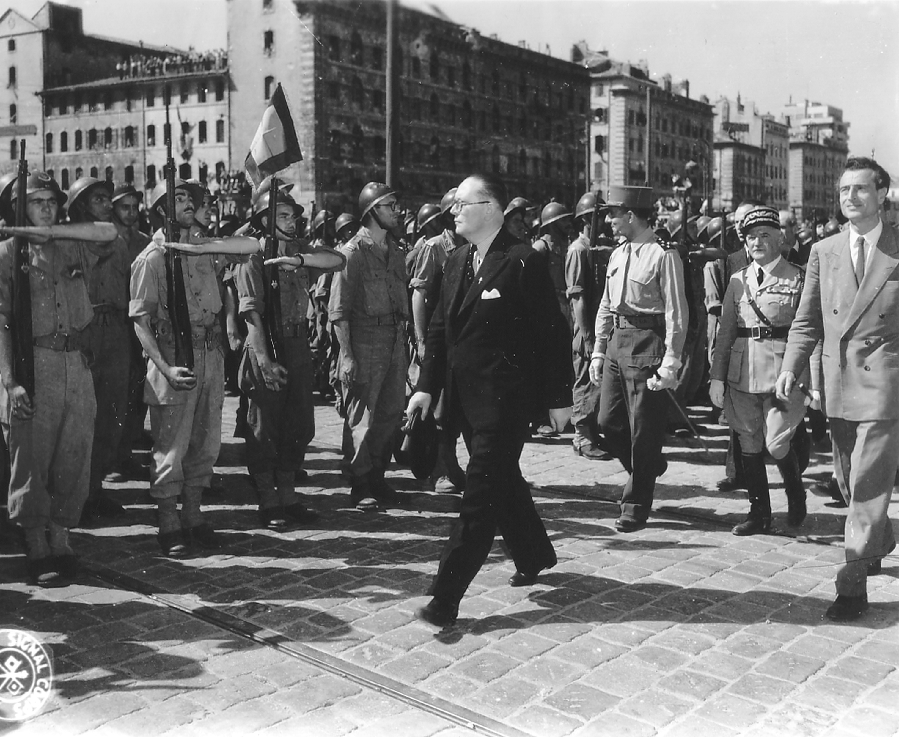 André Diethelm reviews troops in Marseille liberated in August 1944. We recognize, behind Diethelm, General de Lattre de Tassigny (in pants and uniform shirt, without jacket, looking to the right of the soldiers) and Emmanuel Astier de La Vigerie, on the right of the photo. Between the two preceding ones, behind Diethelm, in a kepi with oak leaves, General de Monsabert. Photograph taken on the wharf of Rive-Neuve on the corner with the Cours Jean-Ballard